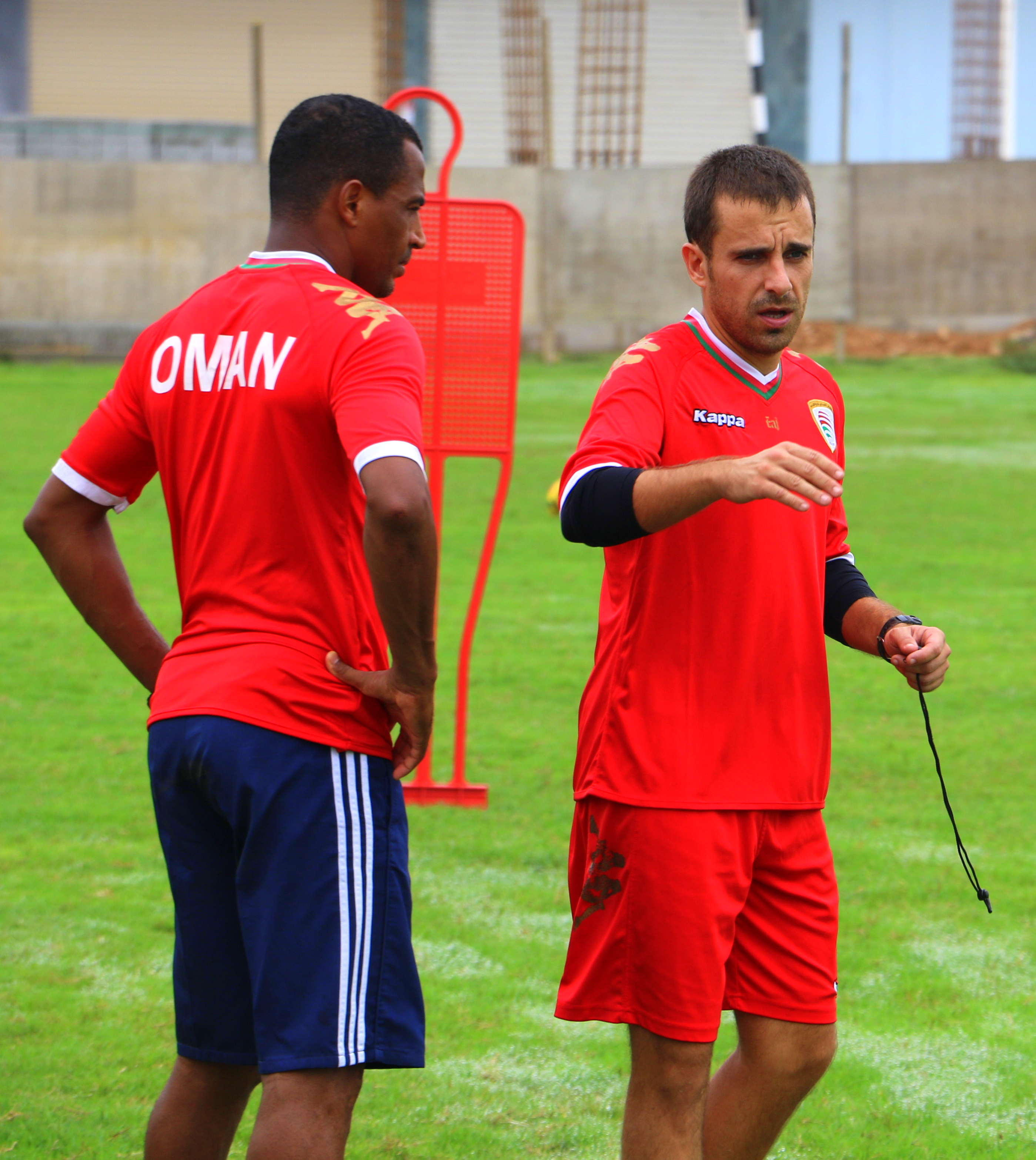 Manuel José Alves Ramos in a training camp with Oman U-23 national team in Salalah. 3 August 2015 Al-Ittihad Club ground, Salalah, Oman Picture Taken By : Pratyush Photographer email id